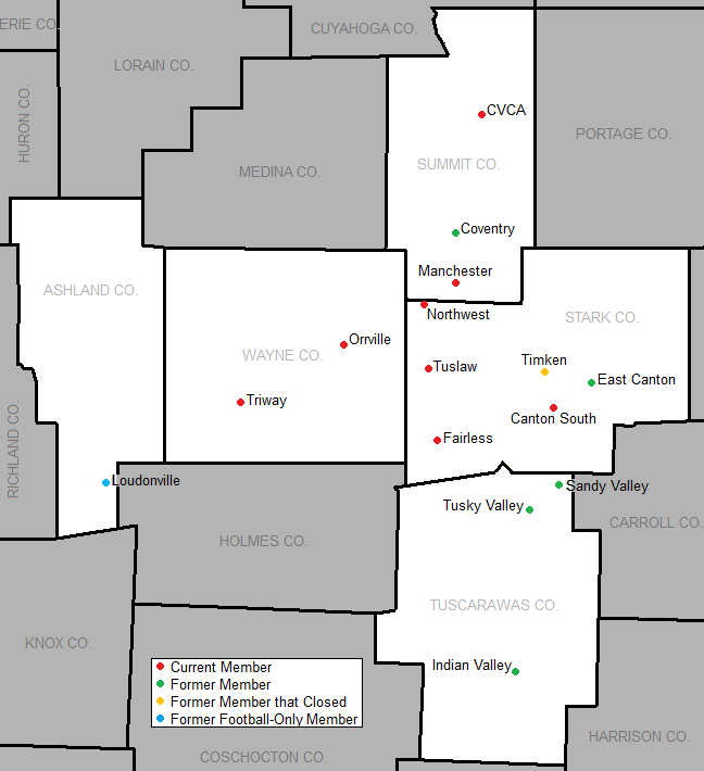 Map showing the all-time members of the PAC-8.